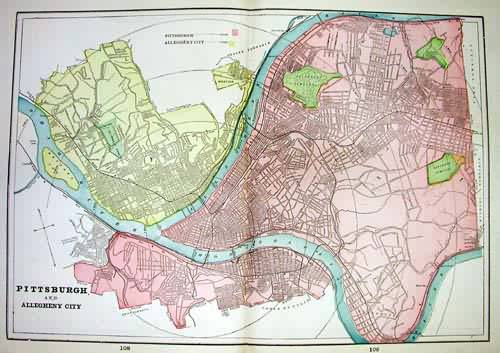 Map of Allegheny, Pennsylvania and Pittsburgh.